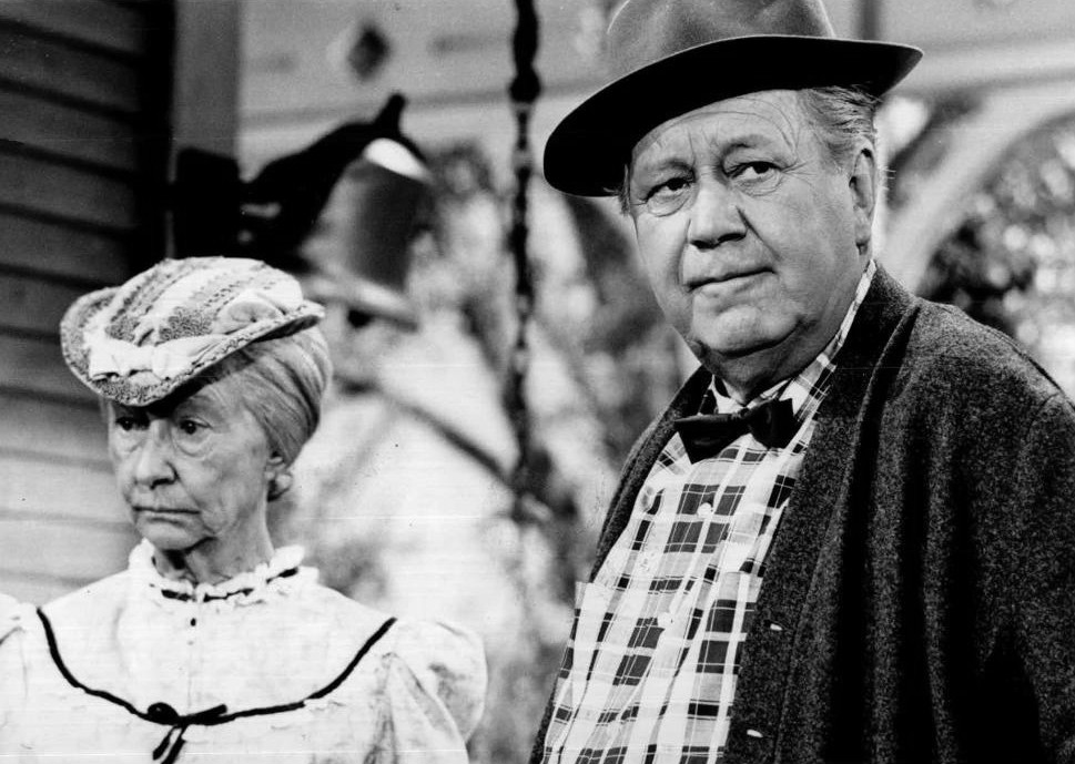 Photo of Irene Ryan and Edgar Buchanan from the television program Petticoat Junction. Ryan, as Granny Clampett from The Beverly Hillbillies, visits Hooterville and is met by Uncle Joe.